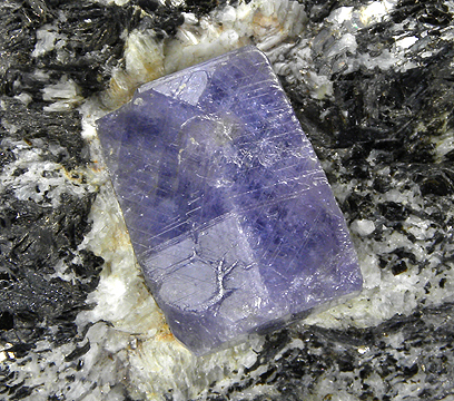 Corundum (Var.: Sapphire) Locality: Zazafotsy Quarry (Amboarohy), Zazafotsy Commune, Ihosy District, Horombe Region, Fianarantsoa Province, Madagascar (Locality at ) Size: 9.1 x 5.3 x 4.0 cm. For both size and quality, this is one of the very best examples of the recently found Corundum specimens from Madagascar. I exchanged it directly from Dr. Federico Pezzotta who collected it while doing research there. Some of these specimens show an obvious color change from indoor lighting to sunlight, this piece is no exception. It features a few excellent quality, sharp, lustrous, prismatic, hexagonal crystals of a bluish-purple color (almost pure blue in sunlight) measuring up to 2.7 cm long perched on schist matrix.